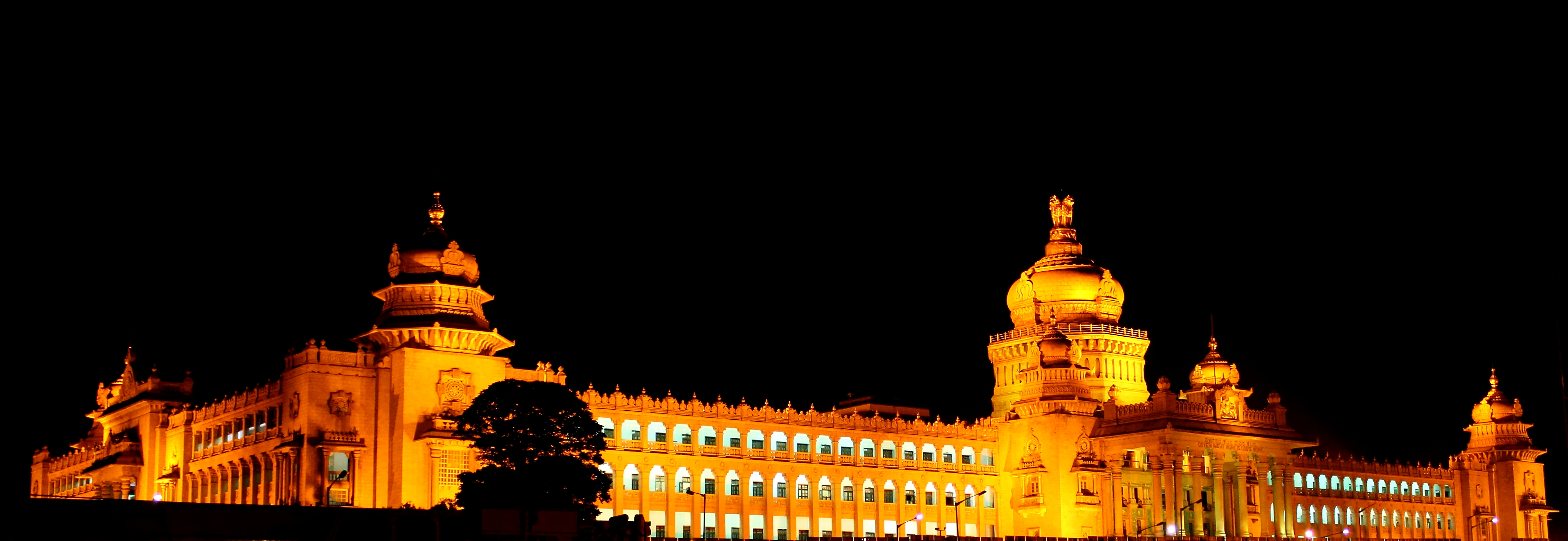 Bangalore